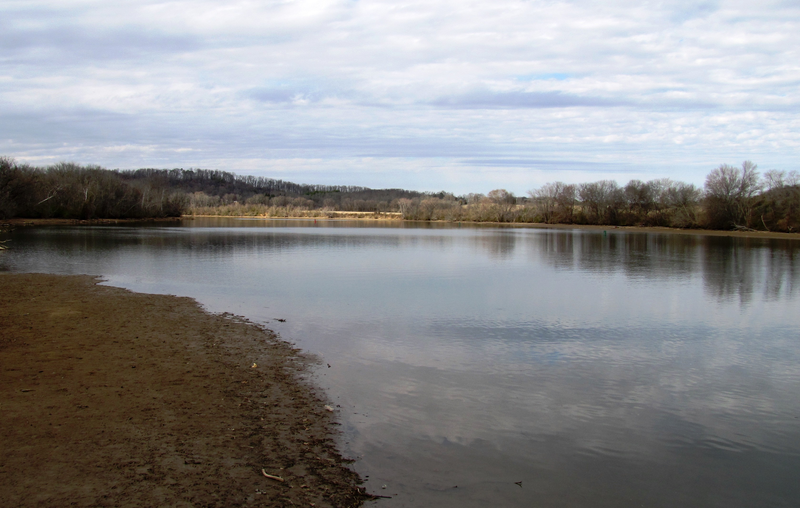 The Tennessee River at River Mile 651, near Knoxville, Tennessee, USA. This view is from just off the North Cove Trail at the Ijams Nature Center, approximate coordinates N35 57 26, W83 51 50, looking north.